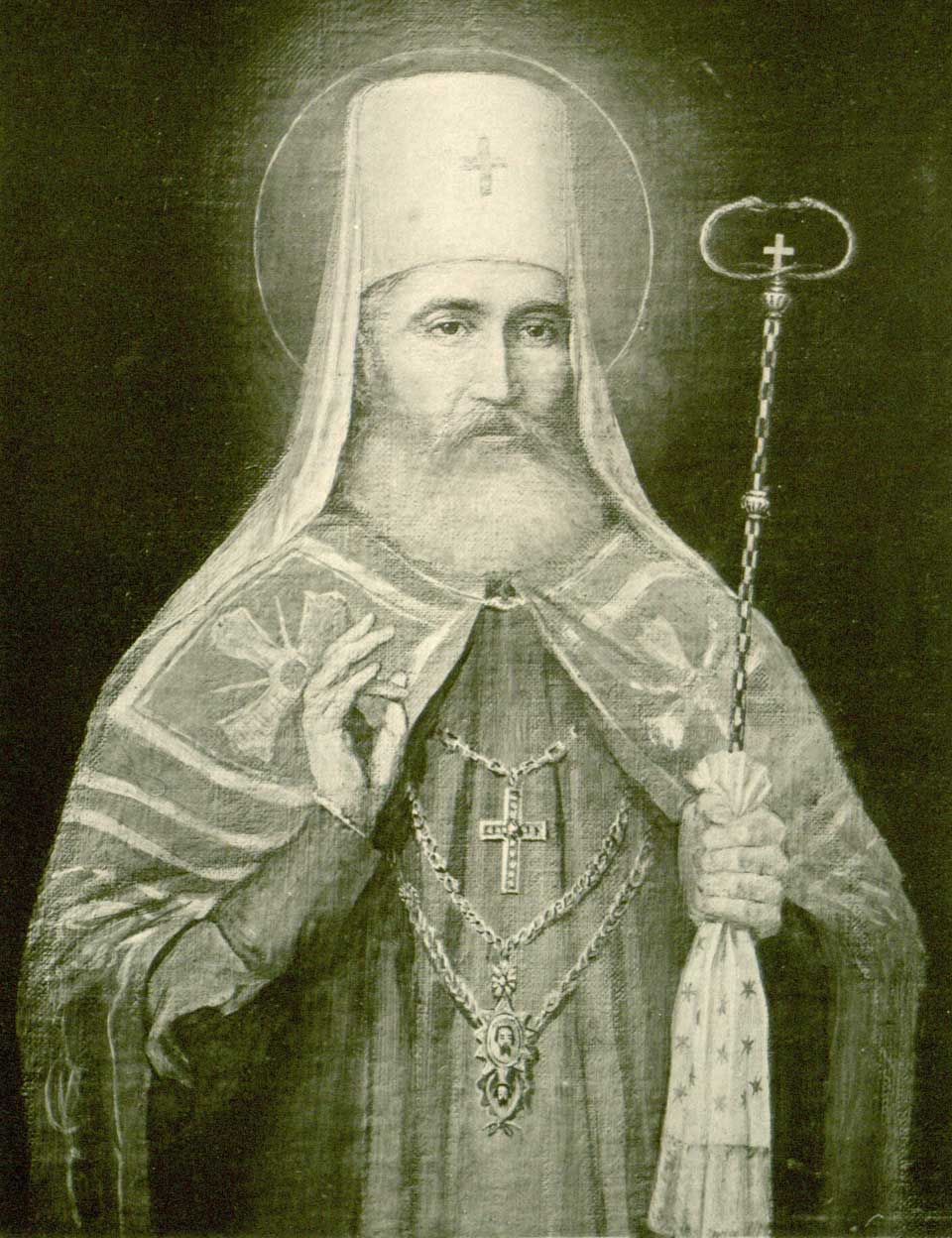 Petar I Petrović-Njegoš, Serbian Orthodox Prince-Bishop of Montenegro